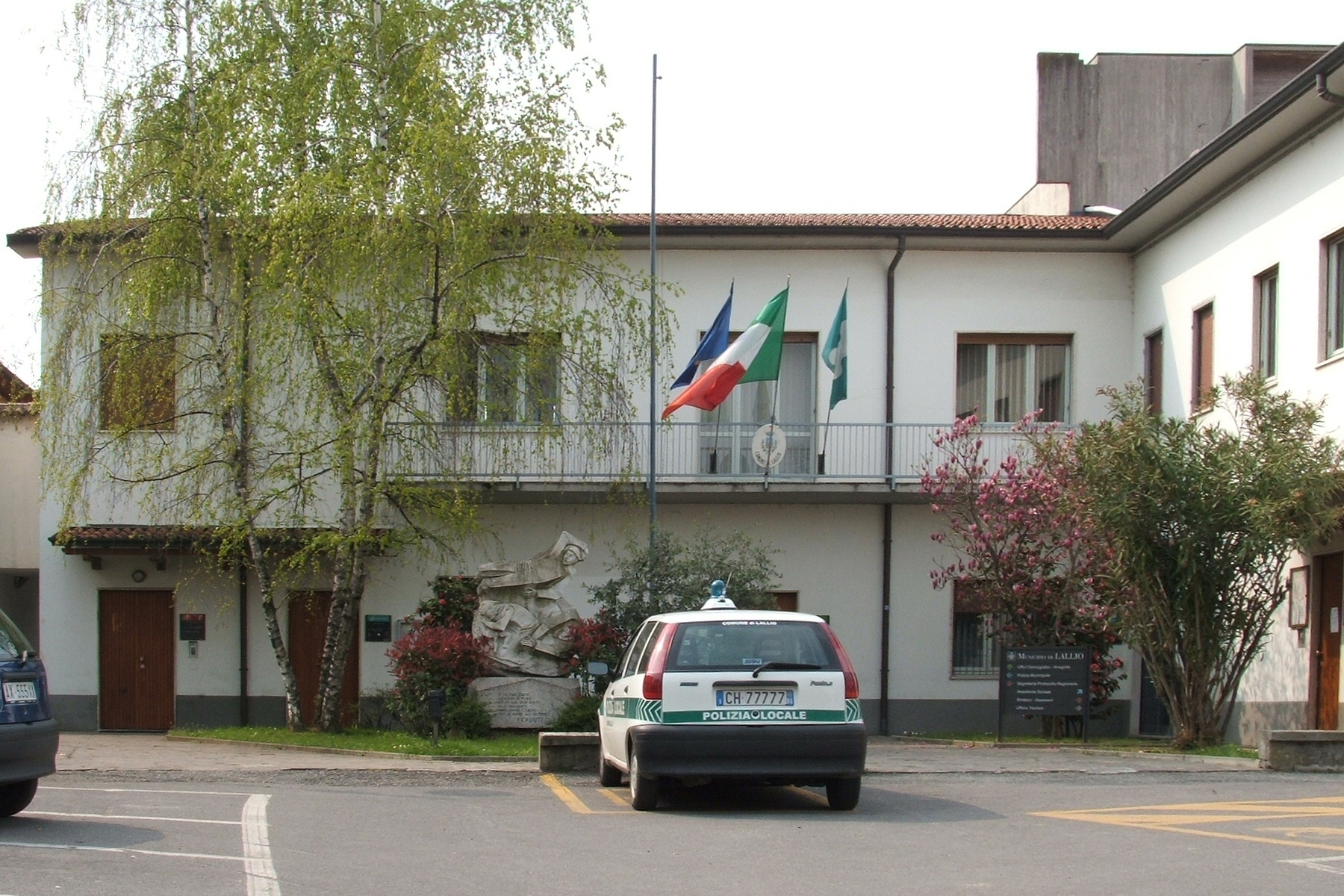 Lallio - Bergamo - Italy - Old town hall